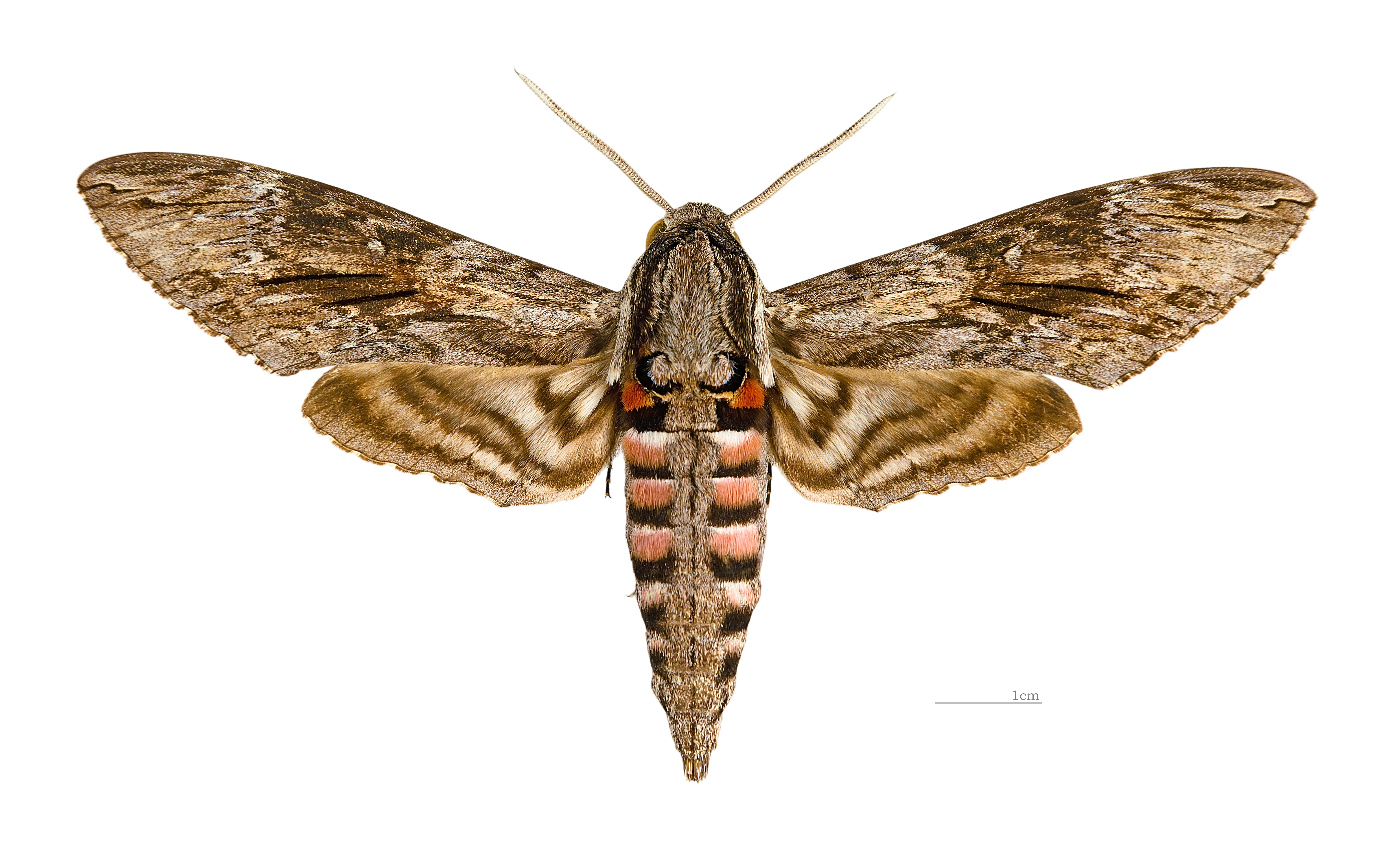 Convolvulus Hawk-moth - Dorsal side